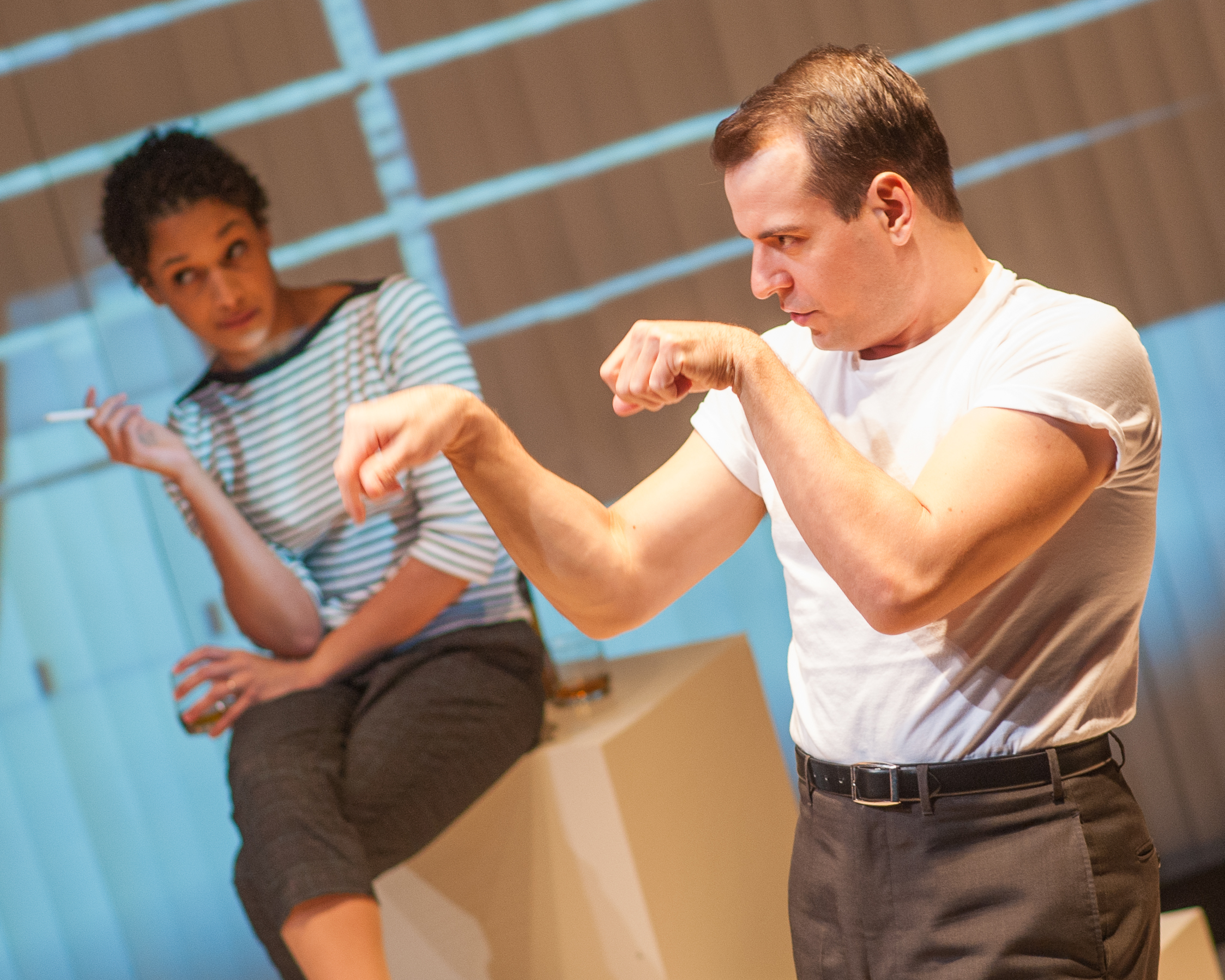 Mailer Scene